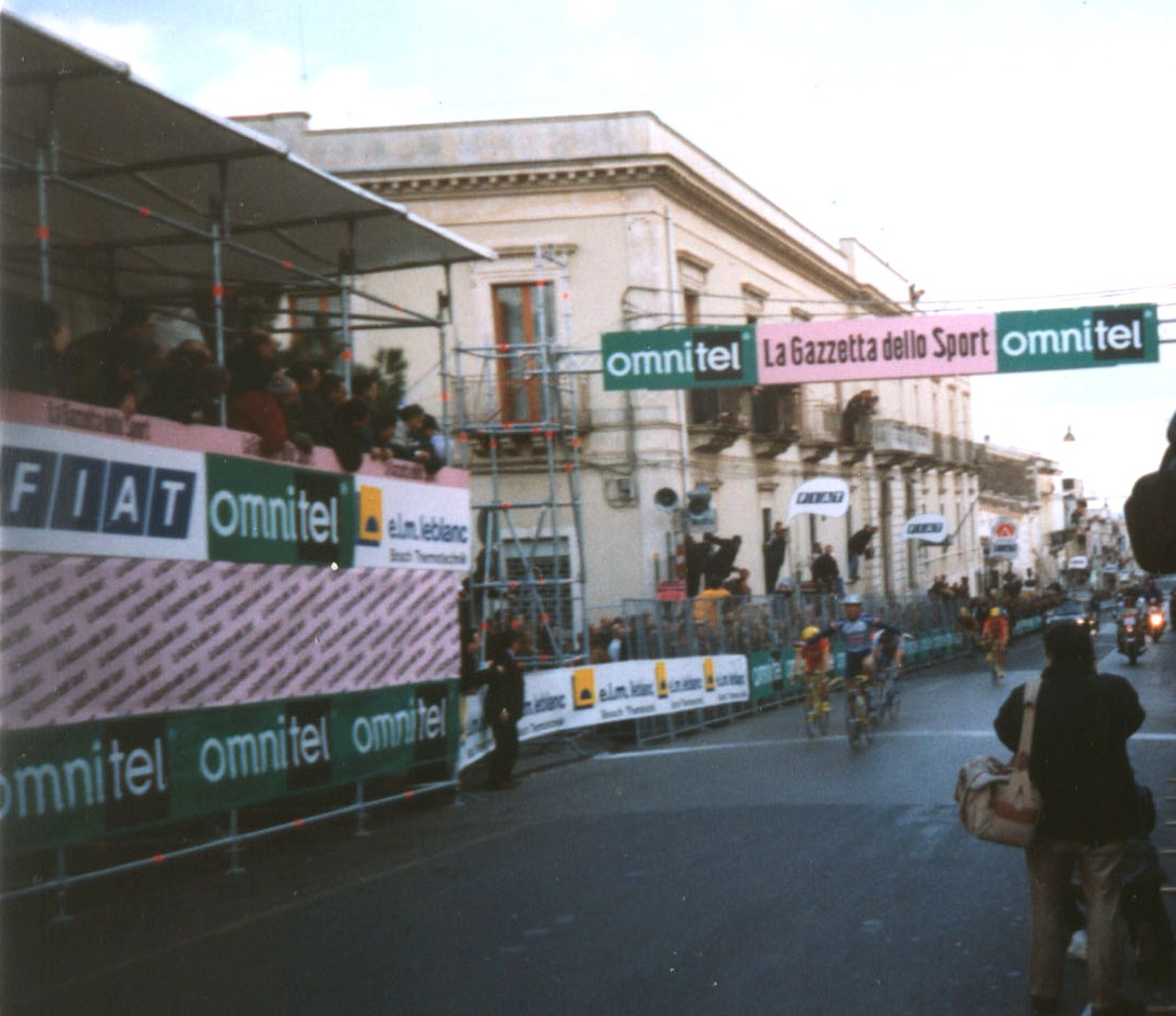 Solarino, Ferrigato wins the "XXIV Trofeo Pantalica"